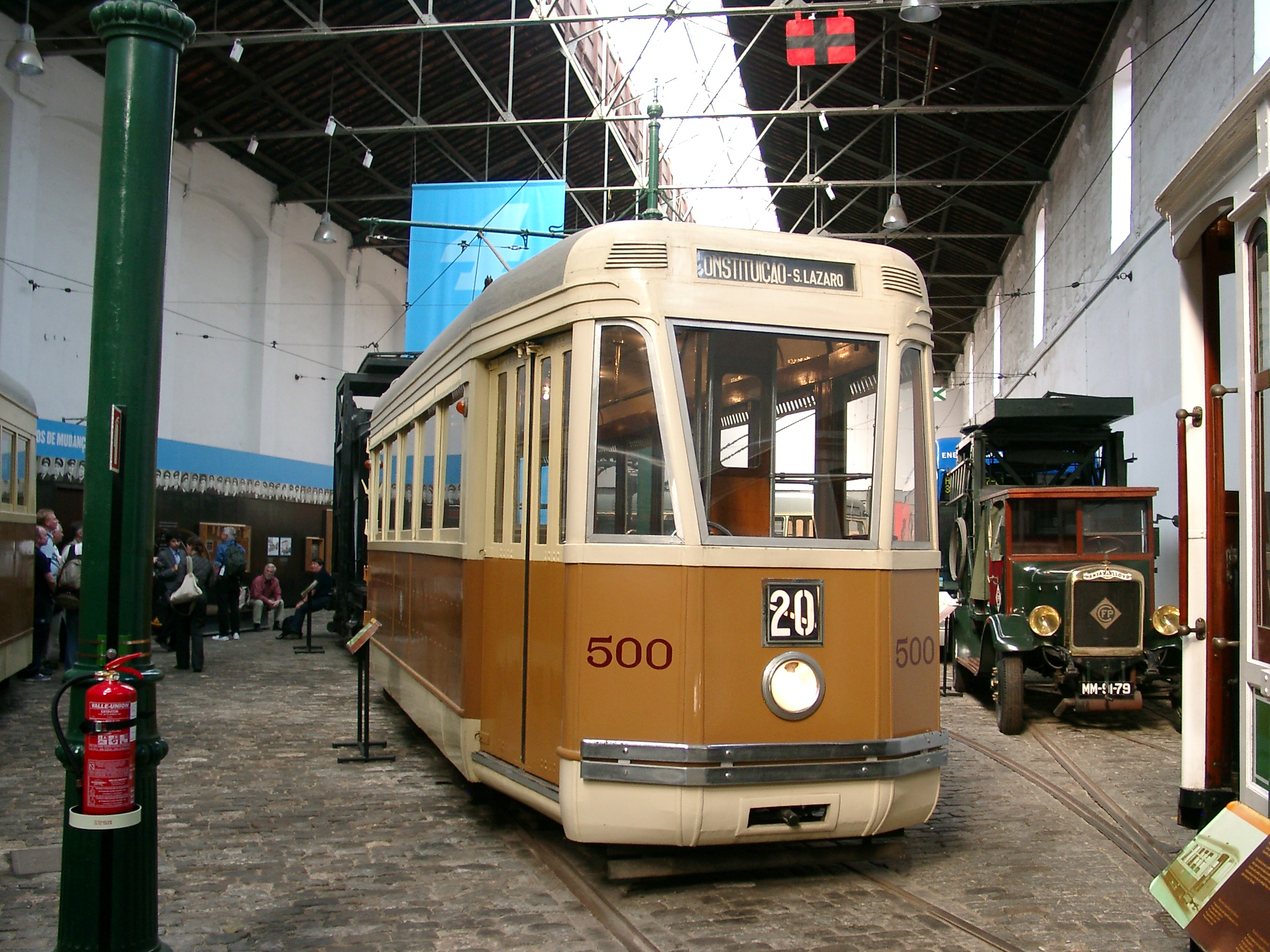 Eléctrico 500